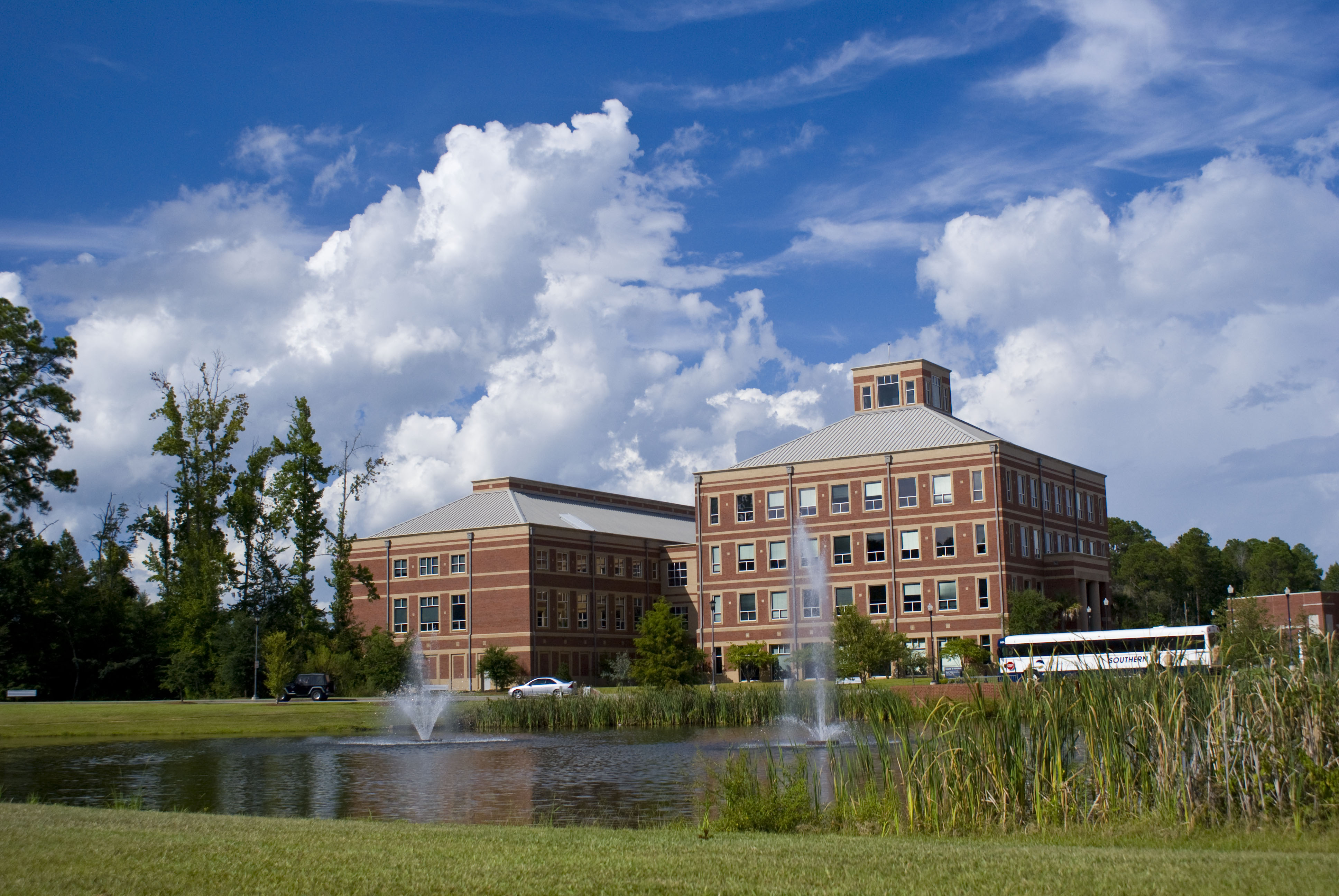 A view of Southern Express, the education building, and the retention pond from Akins Blvd.